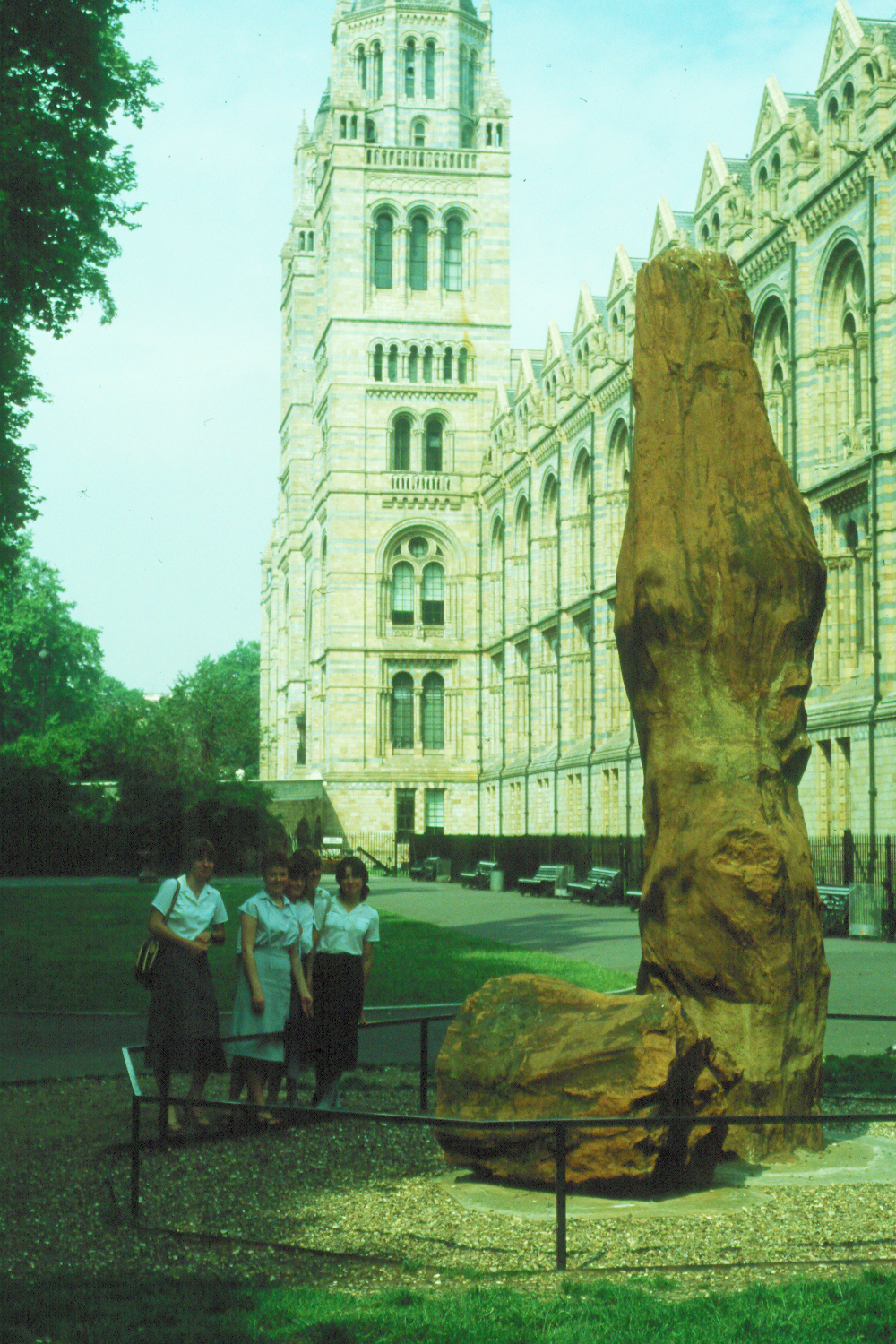 The Craiglieth tree, a fossil trunk of Pitus primaeva, an early Carboniferous seed fern, outside the Natural History Museum,. London